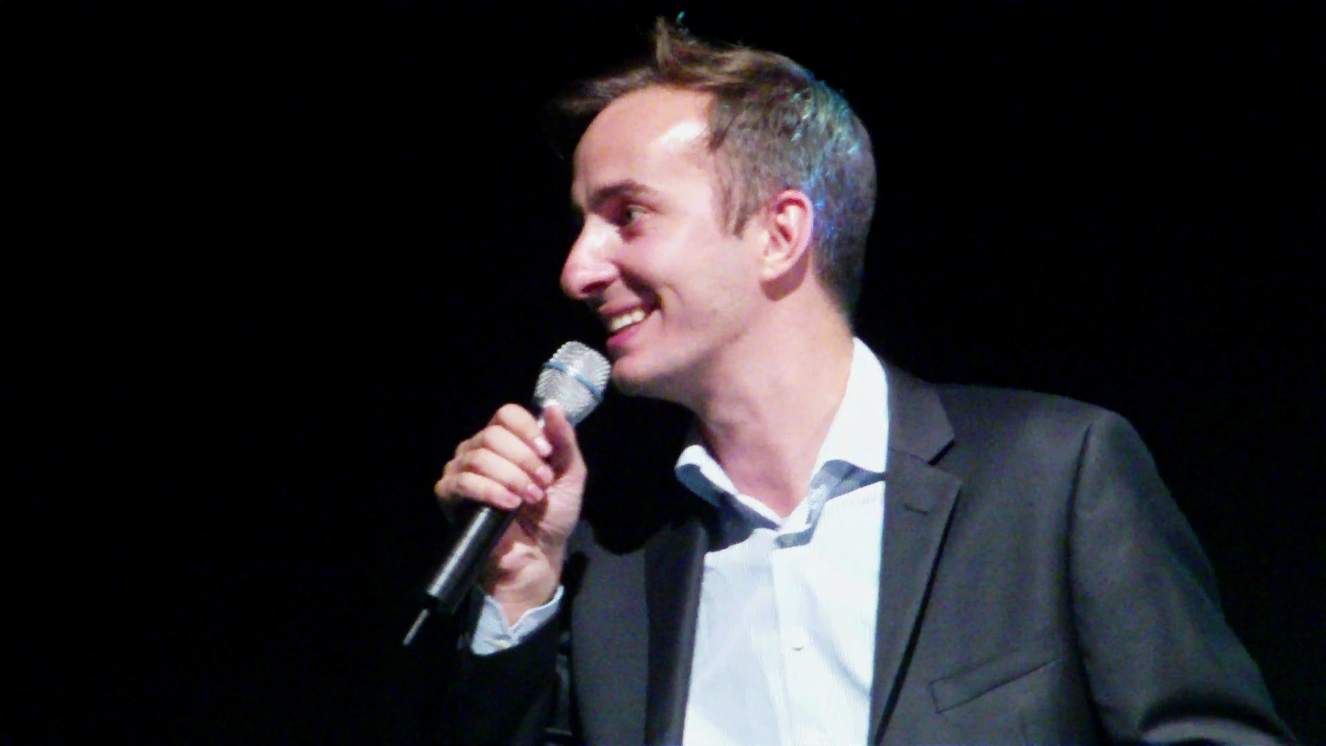 German radio, event and TV presenter Jan Böhmermann during the Jugendmedientage 2011 in Stuttgart/Germany